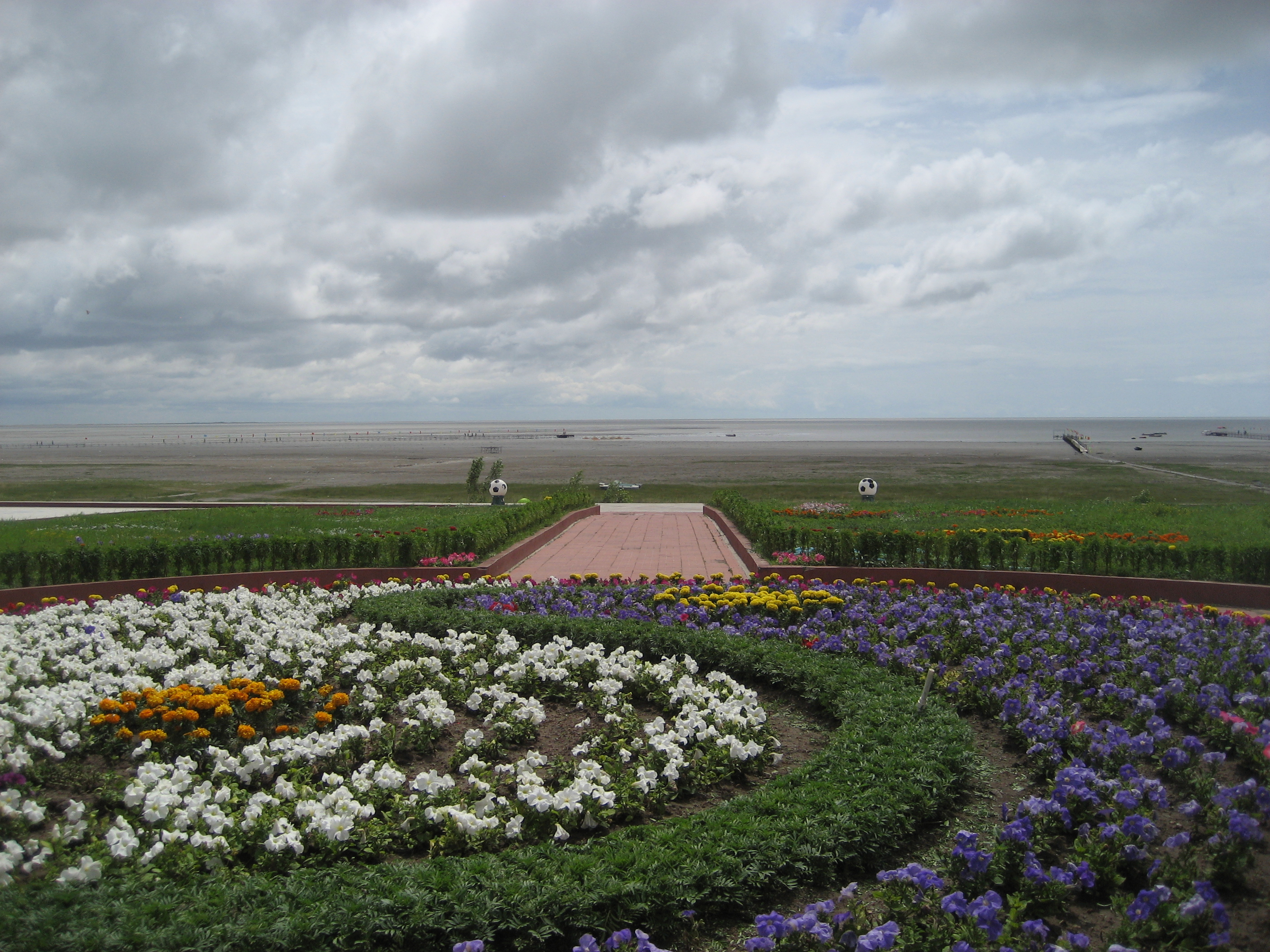 A garden overlooking Lake Hulun